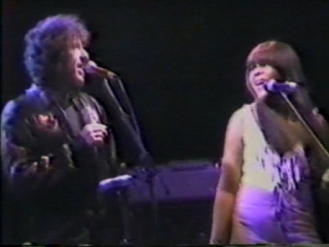 Bob Dylan and Clydie King singing together in Avignon, France, July 25, 1981. Screen capture from amateur audience video. To be used in CLYDIE KING article.